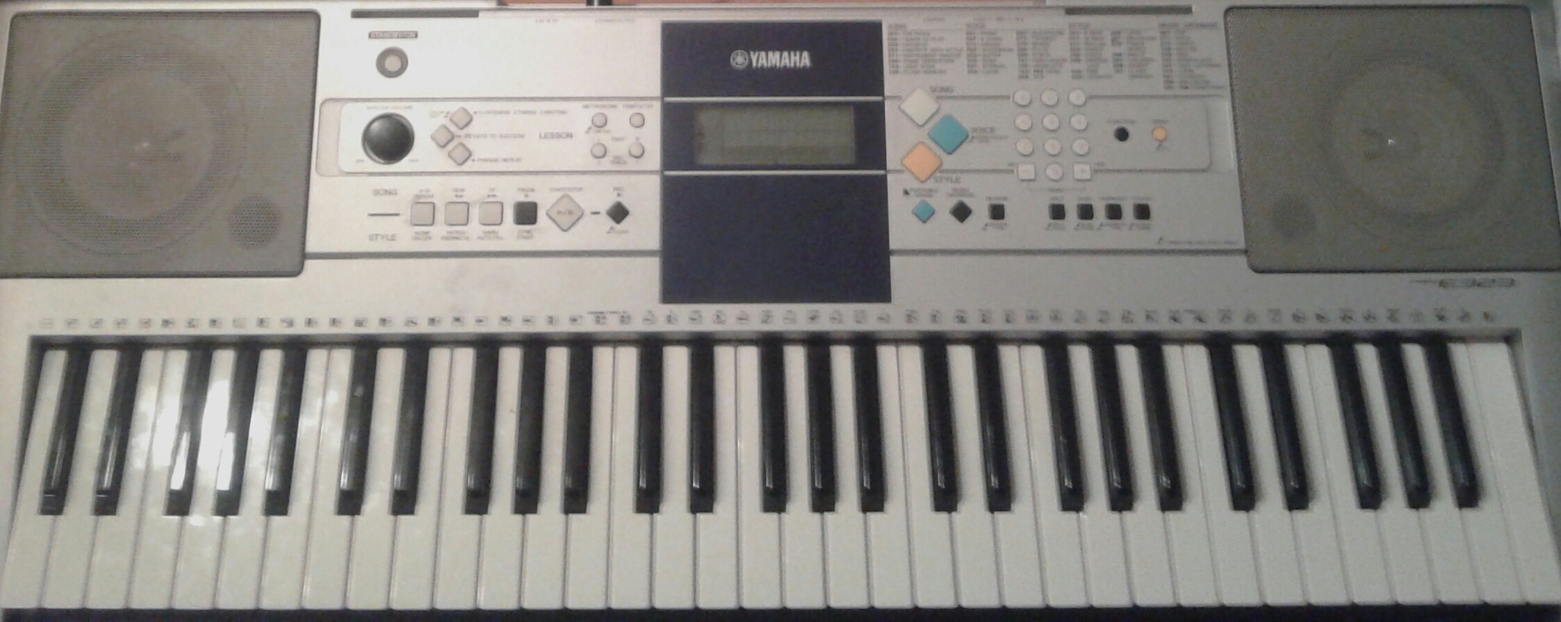 Himself piano